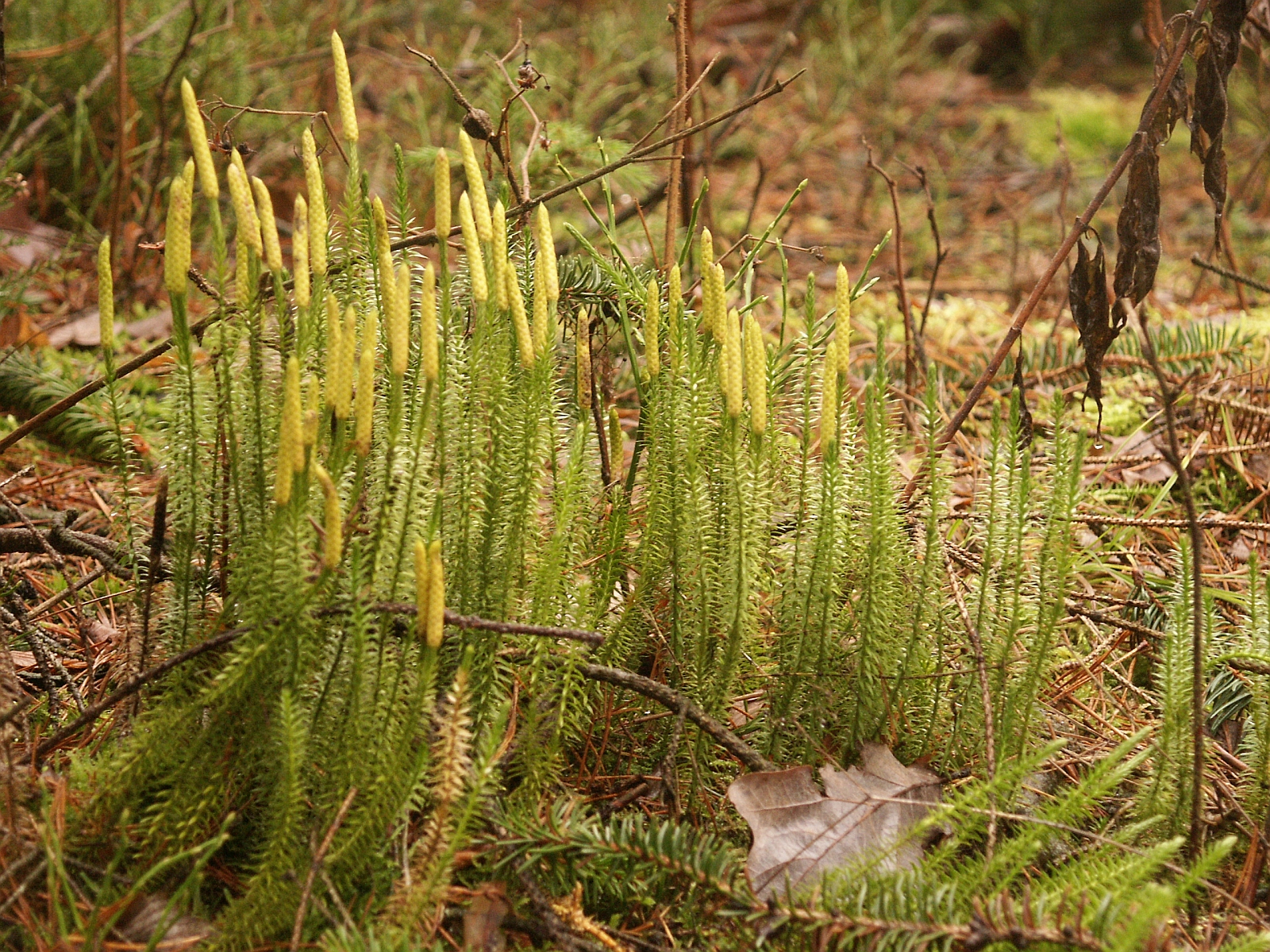 Lycopodium annotinum, Virngrund, Germany